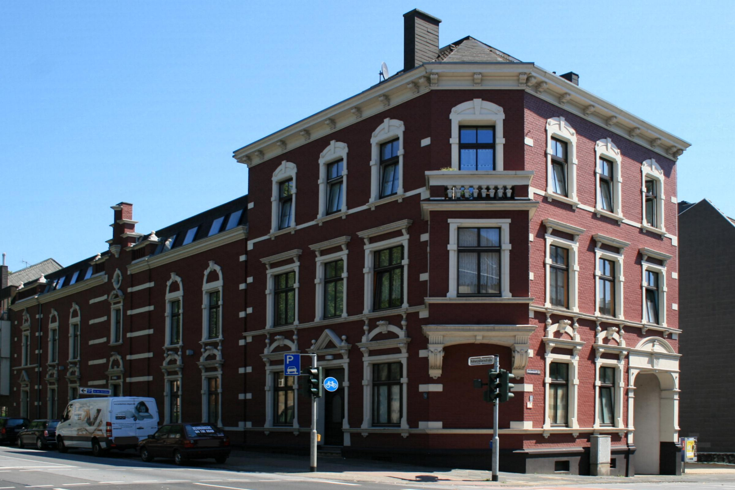 Cultural heritage monument No. H 002 in Mönchengladbach